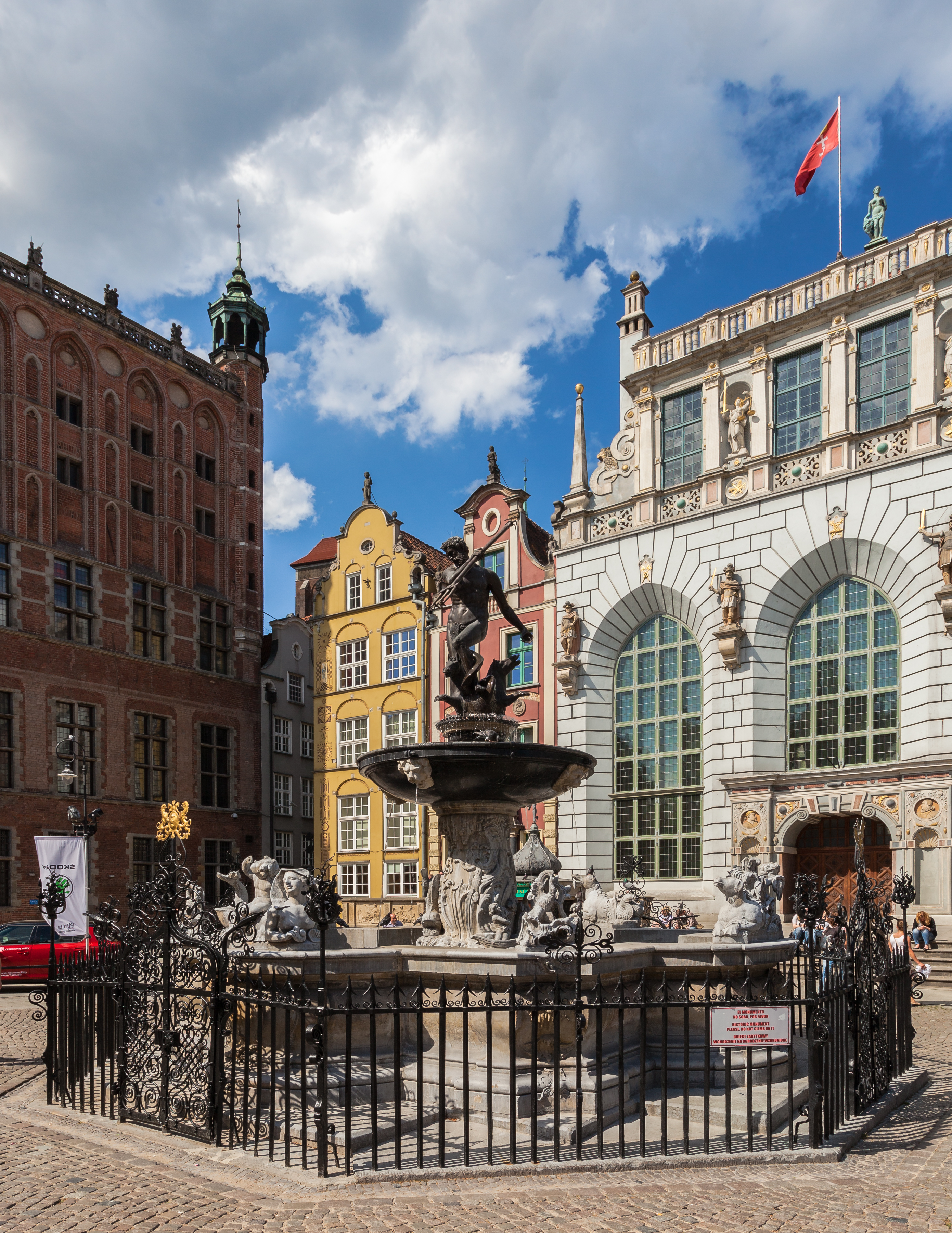 Neptune Monument, Gdansk, Poland 02.1967.